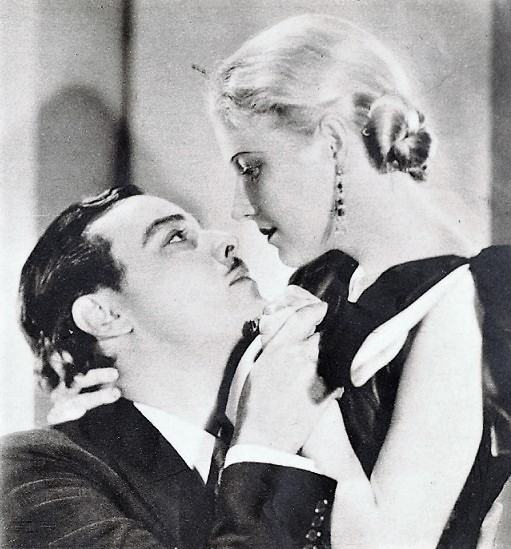 Ann Harding and Nils Asther in The Right to Romance (1933) from the January 1934 Picture-Play Magazine.